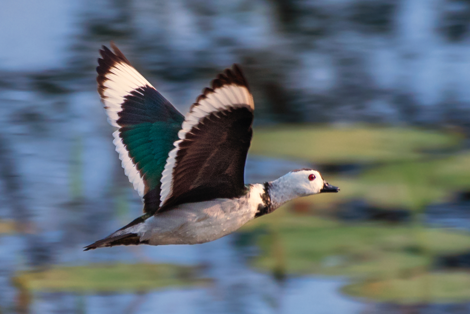 Cotton pygmy goose or cotton teal, Manjeera Wildlife Sanctuary, Telangana, India; Photographer: Prasanna Kumar Mamidala